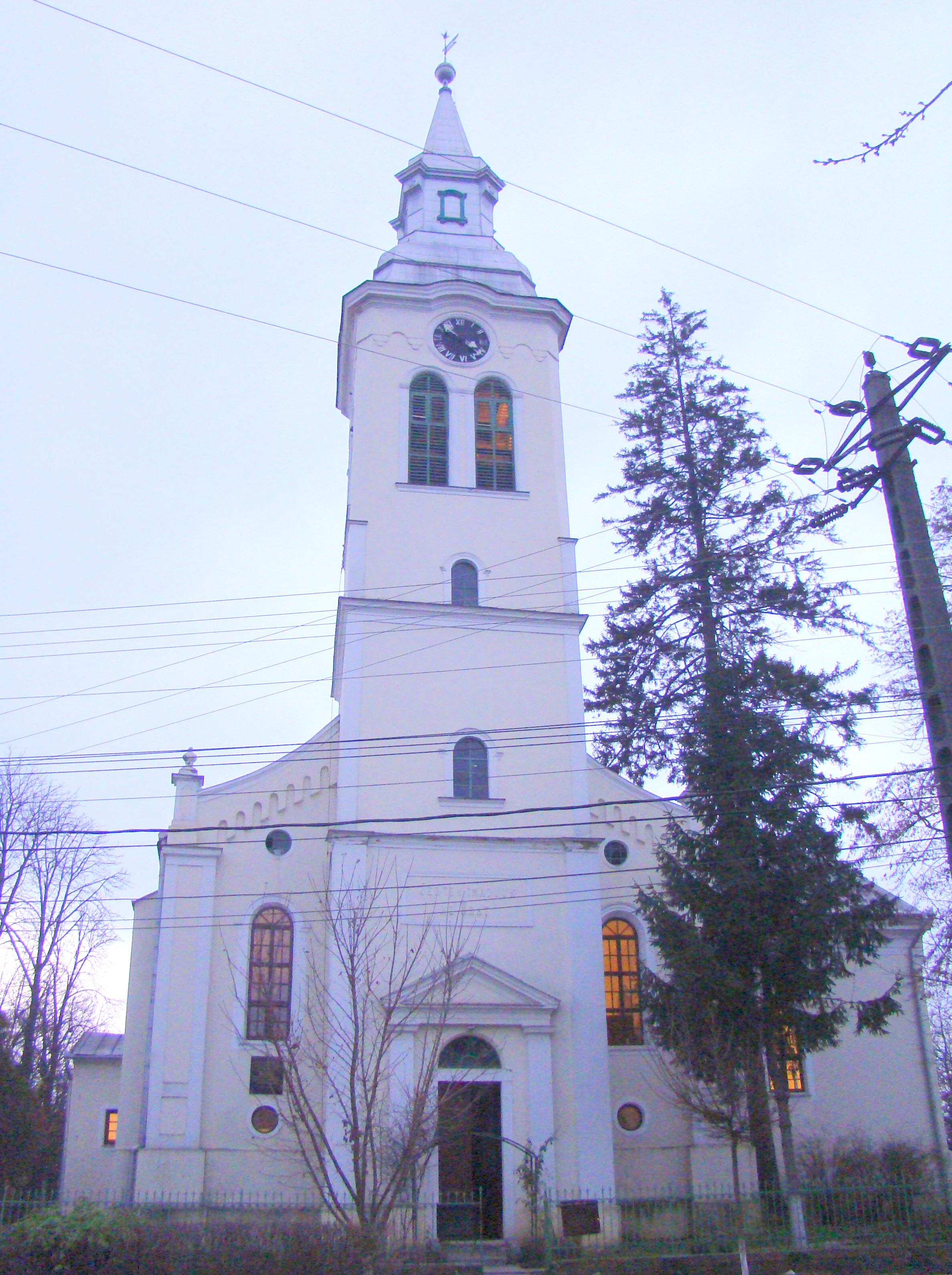 Reformed church in Diosig, Bihor county, Romania